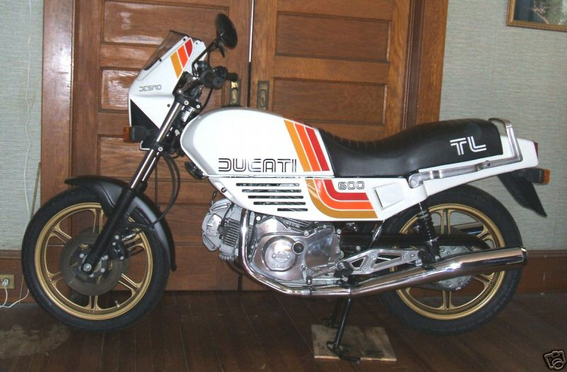 Photo of a 1985 Ducati Pantah 600TL motorcycle, released to the public domain. Author: Izaakb Date: 2006